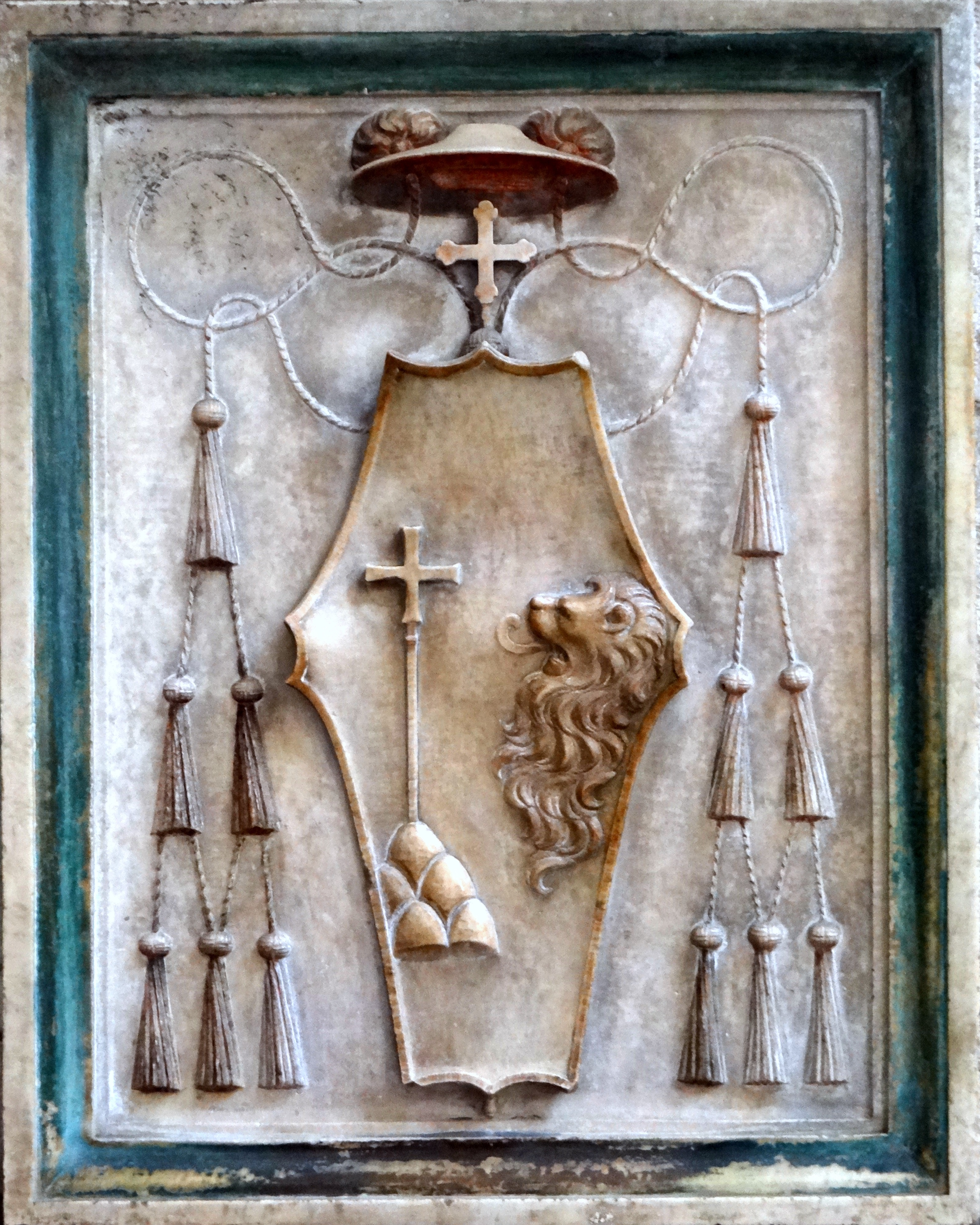 Coats-of-arms of Cardinal Ludovico Podocataro on his funeral monument in Santa Maria del Popolo.